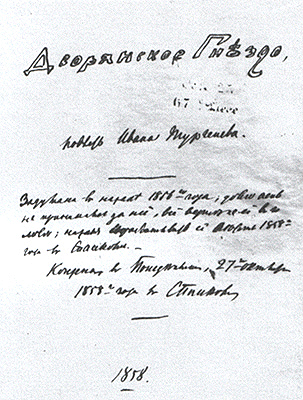 The manuscript of the titlepage of 'Home of the Gentry' (1858)